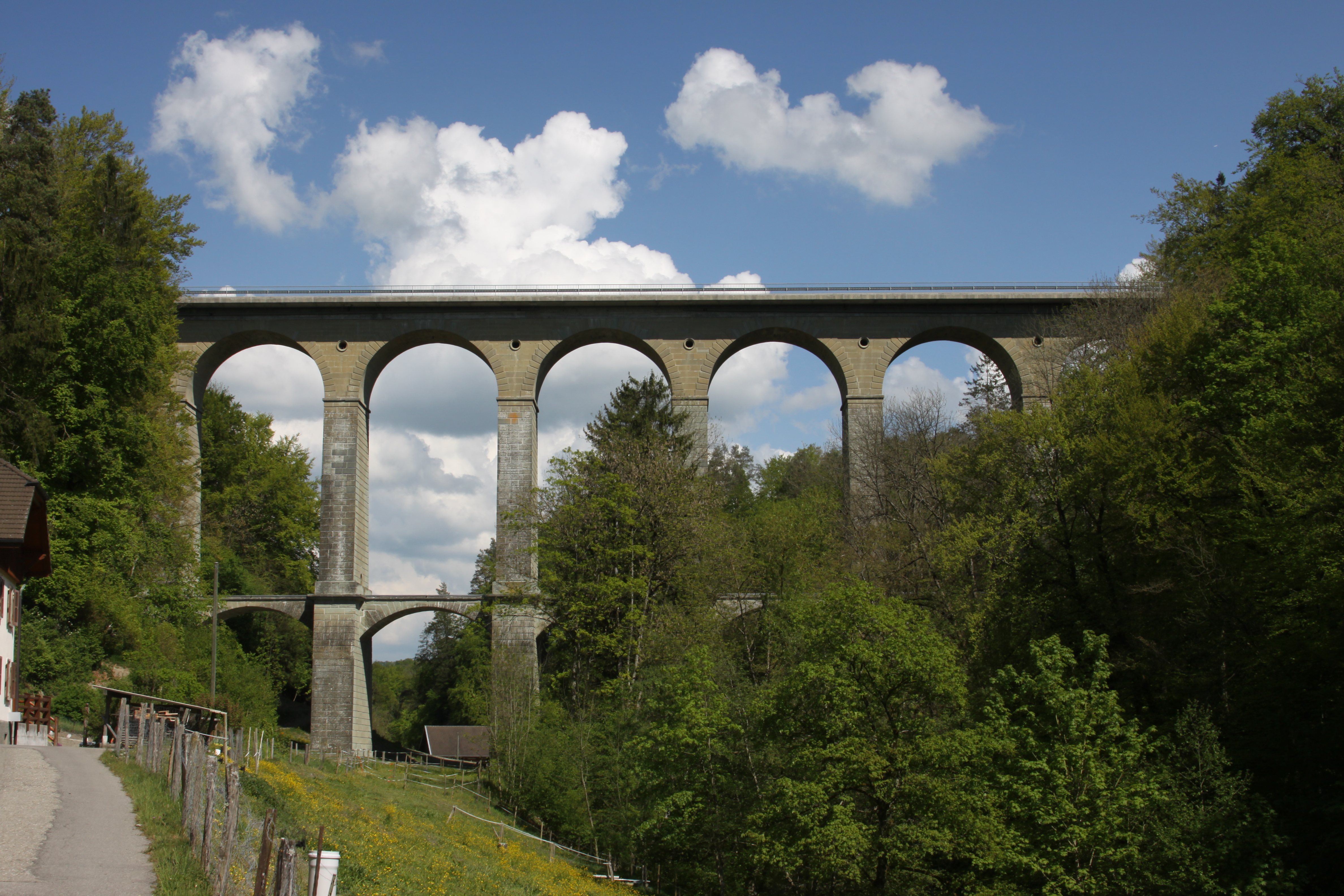 Glâne Bridge, Route de la Glâne, Villars-sur-Glâne